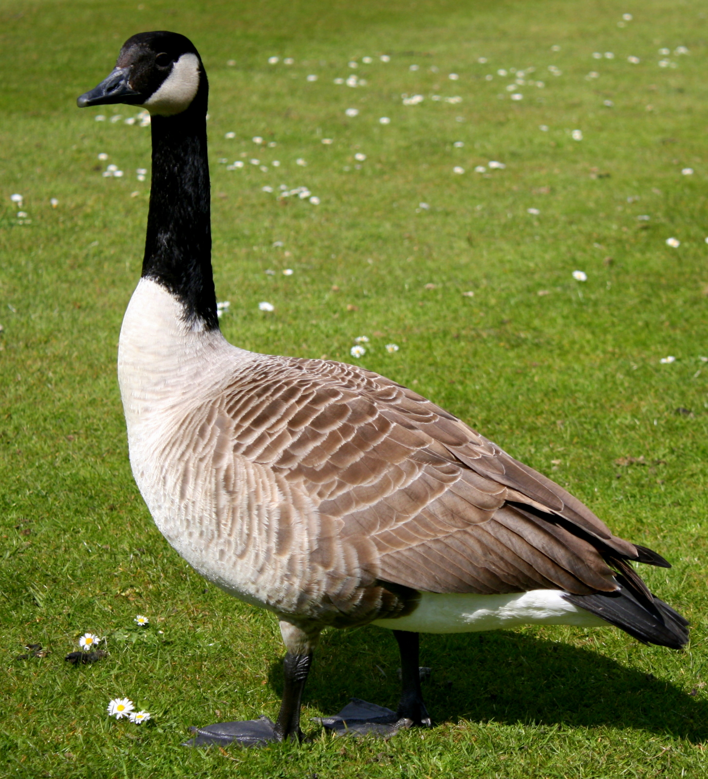 Canada Goose, feral, England